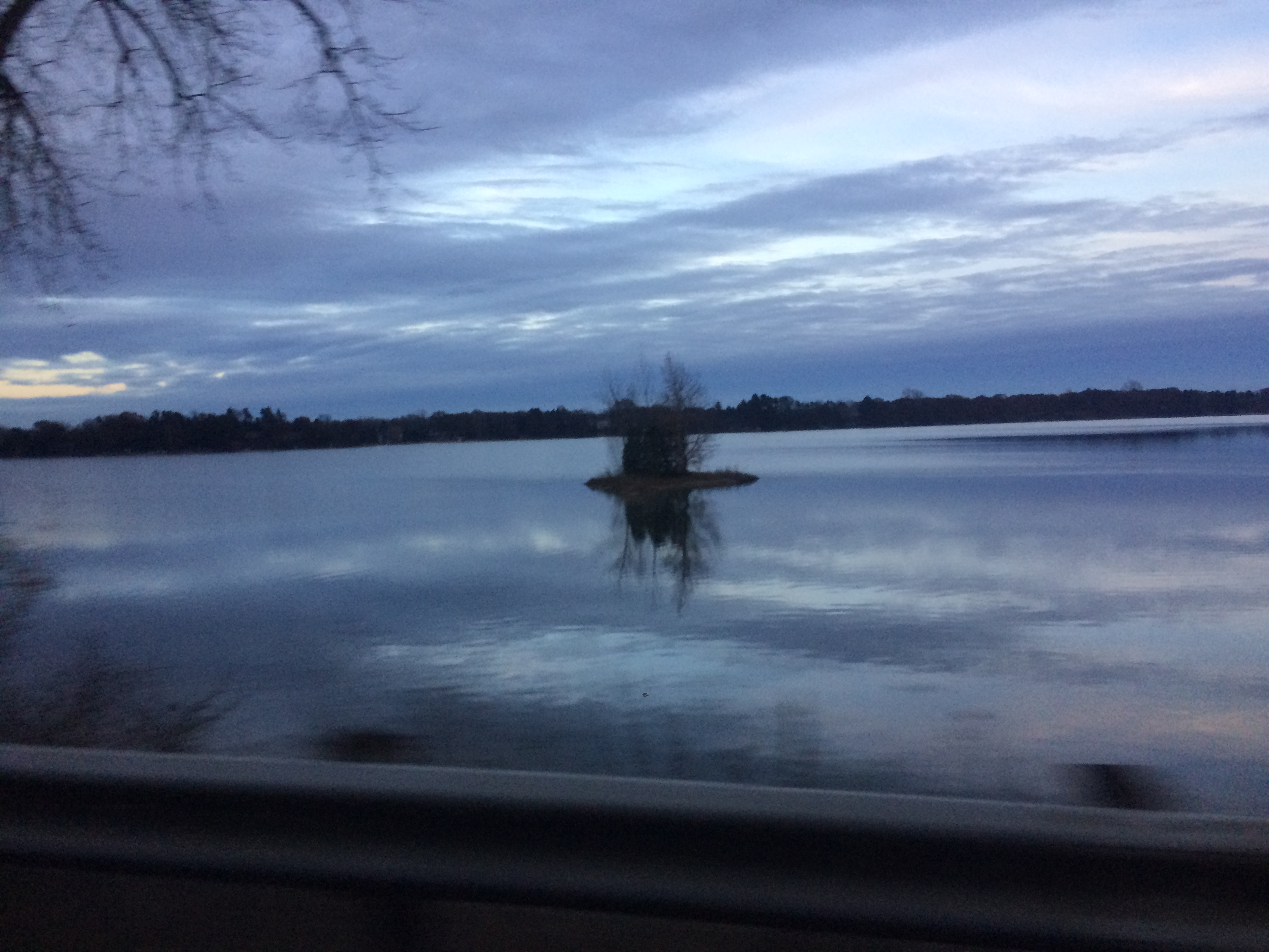 Raspberry Island in Silver Lake, Grand Traverse County, Michigan. Taken from the western shore of the lake in late November, 2017